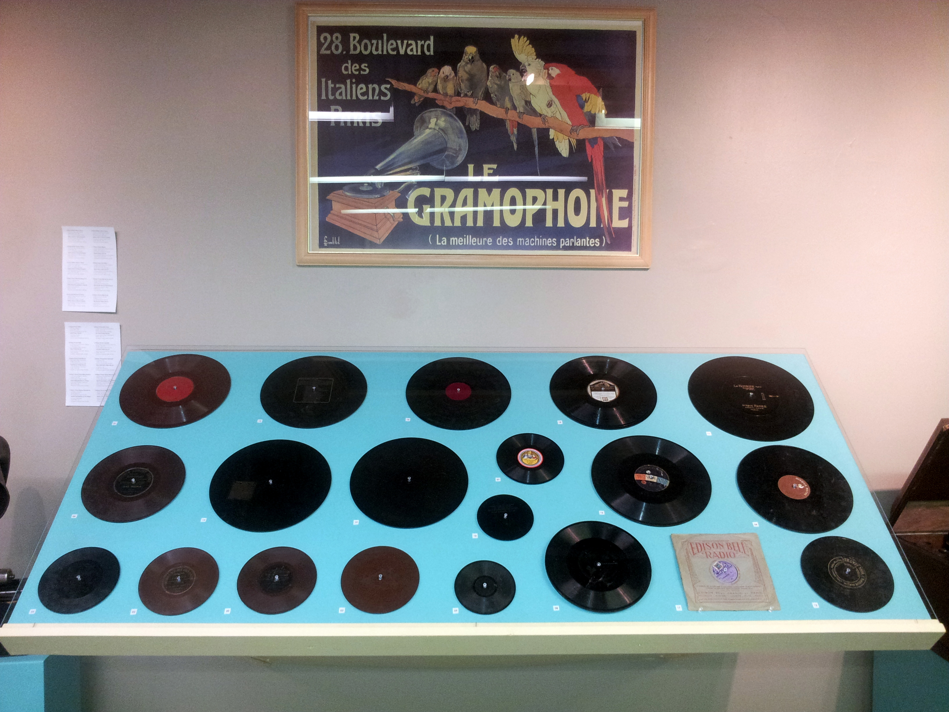 Émile-Berliner Museum in Montreal, Quebec, Records History